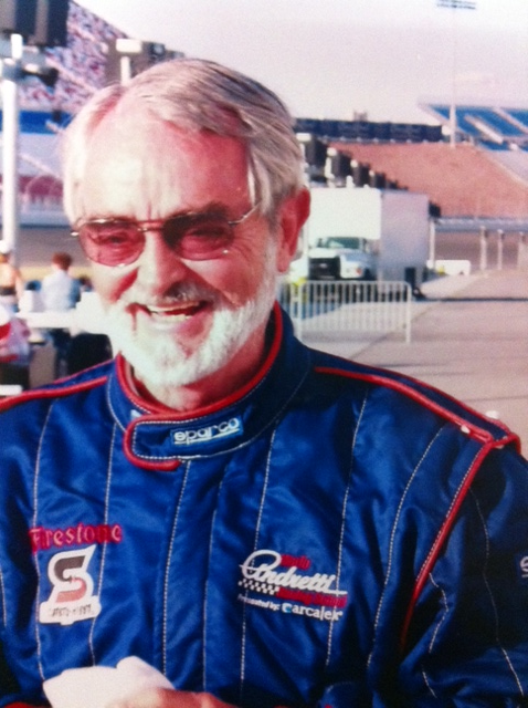 VanTech Motorcycle creator